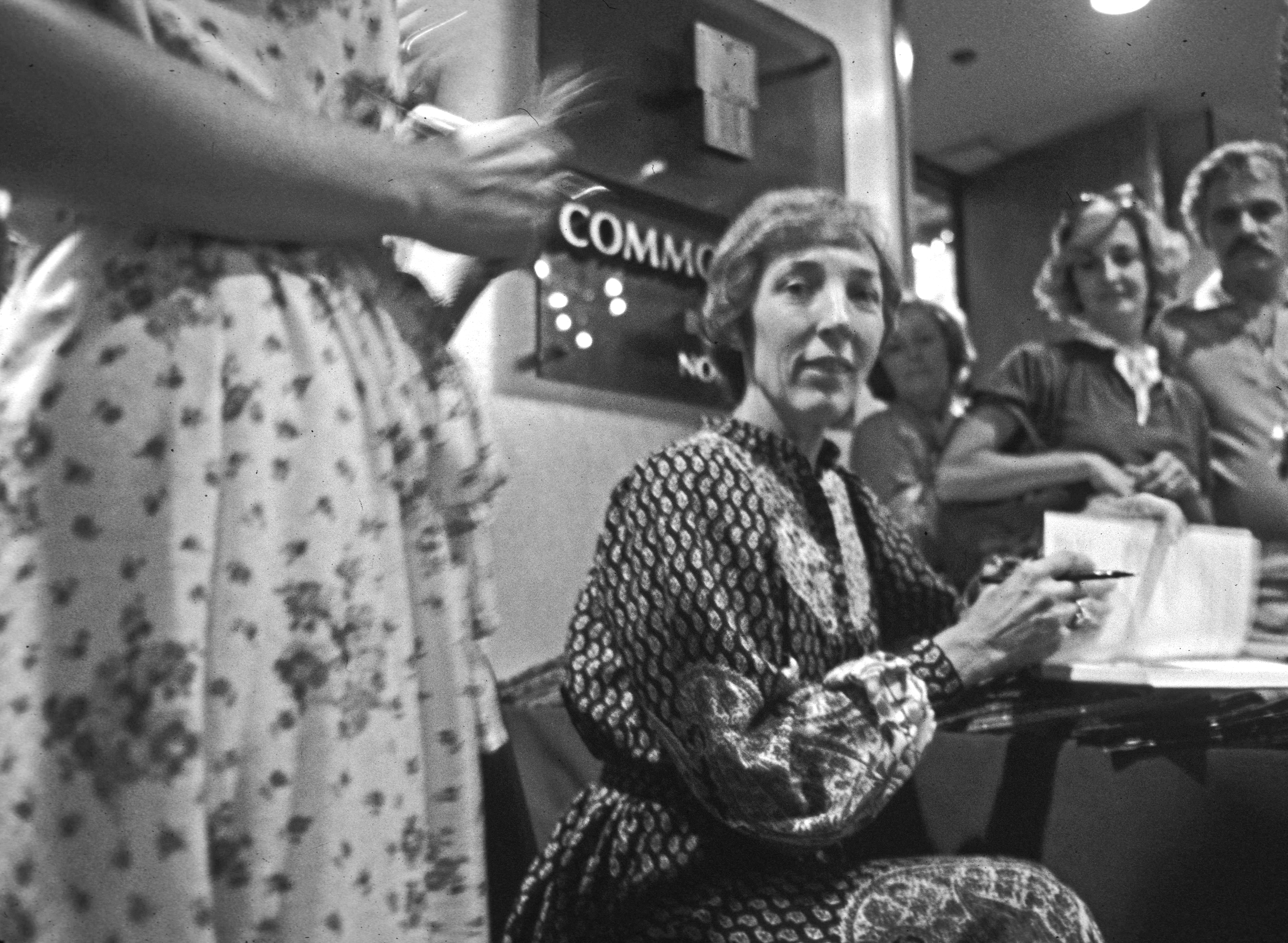 Jean Ray Laury signing autographs at the First Continental Quilting Congress, Sheraton Hotel, Arlington VA, July 1978.